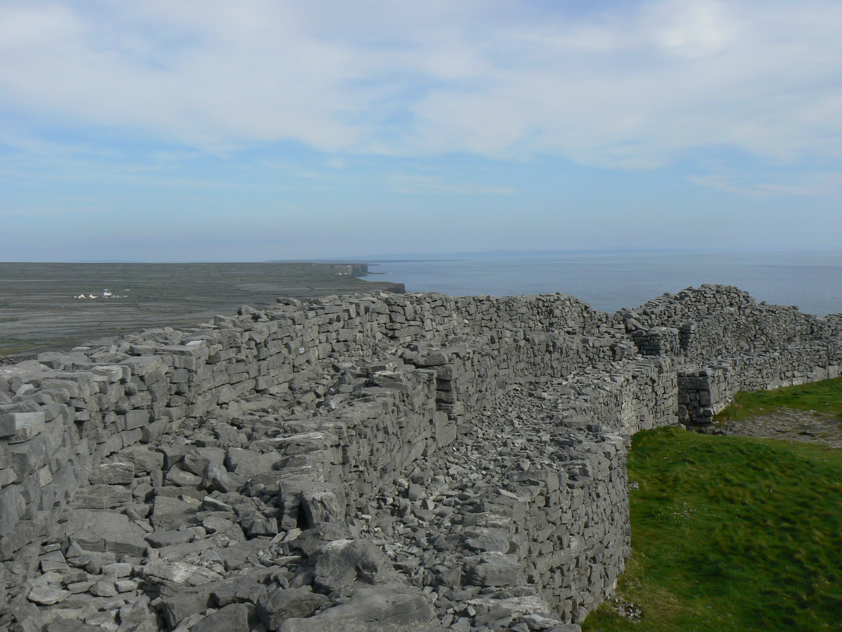 Dún Aonghasa is the most famous of several prehistoric forts on the Aran Islands, of County Galway, Ireland.